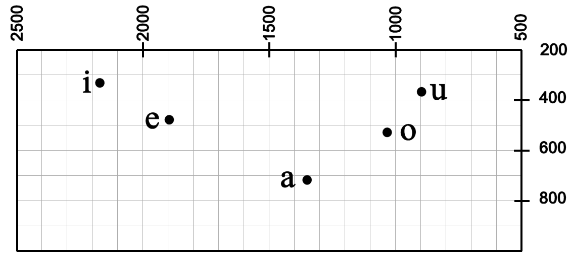 Formant values or Castilian Spanish vowels.